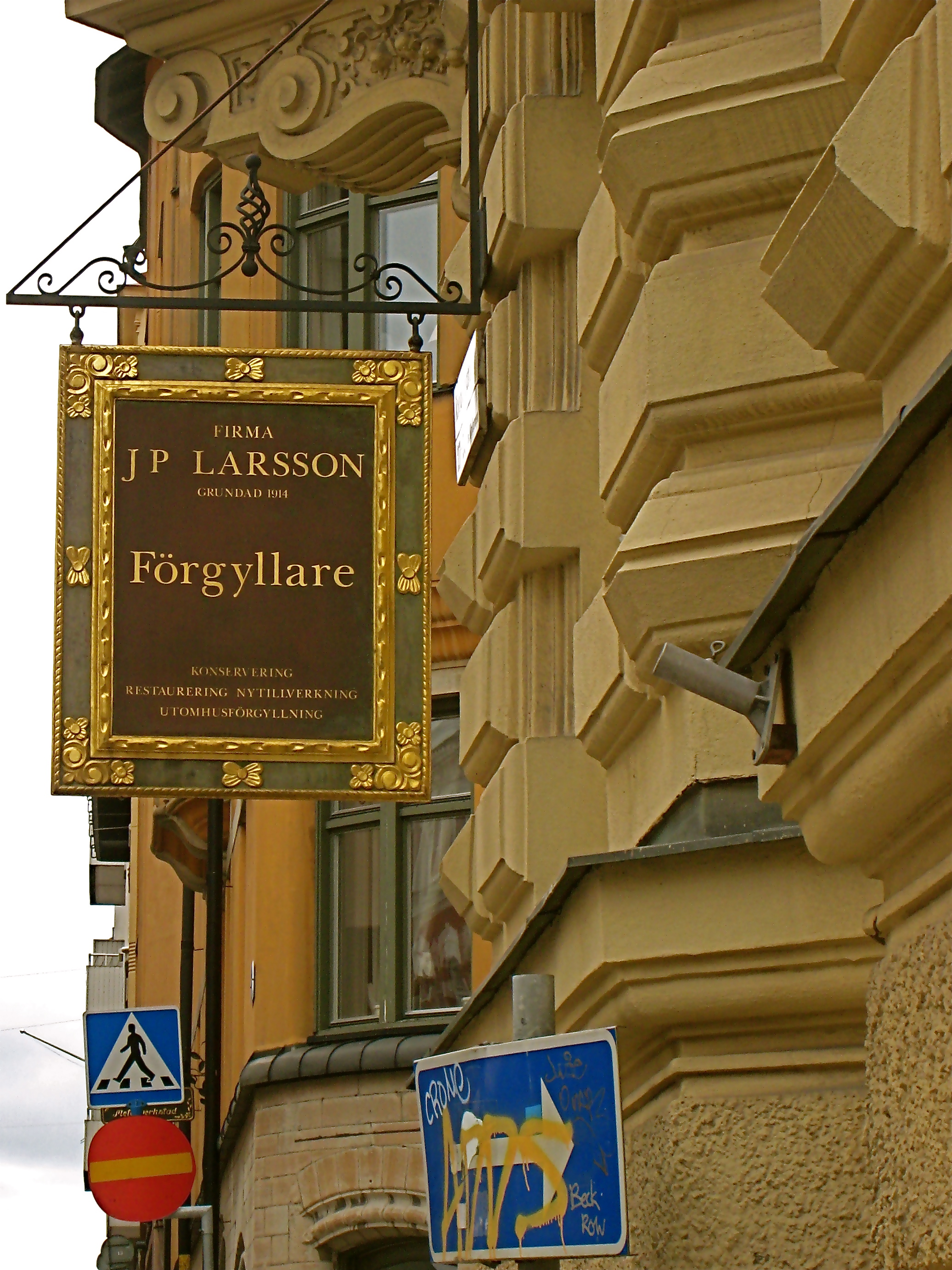 JP Larssons skylt i korsningen RIddargatan/Grevgatan.